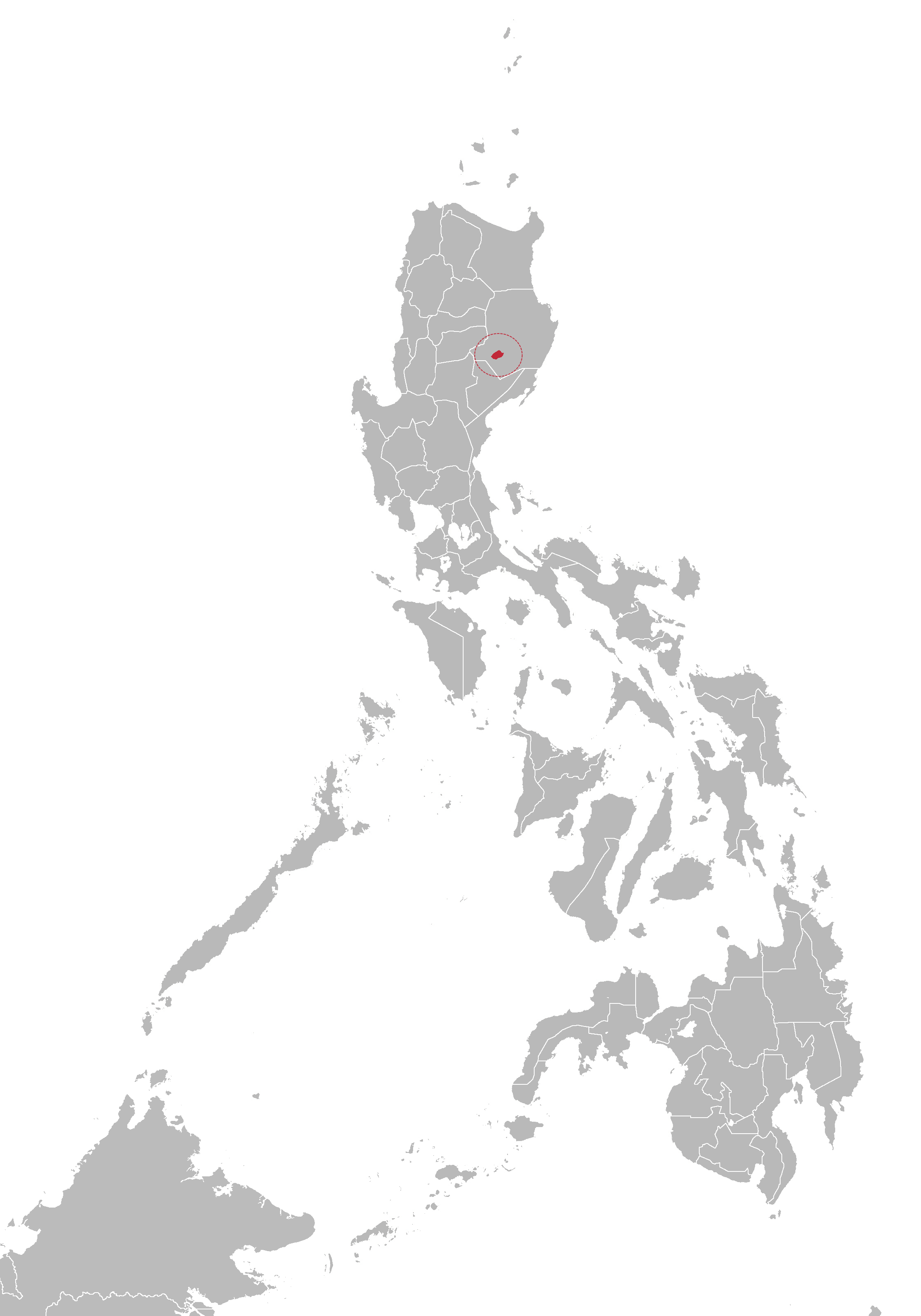 Yogad language map based on Ethnologue map